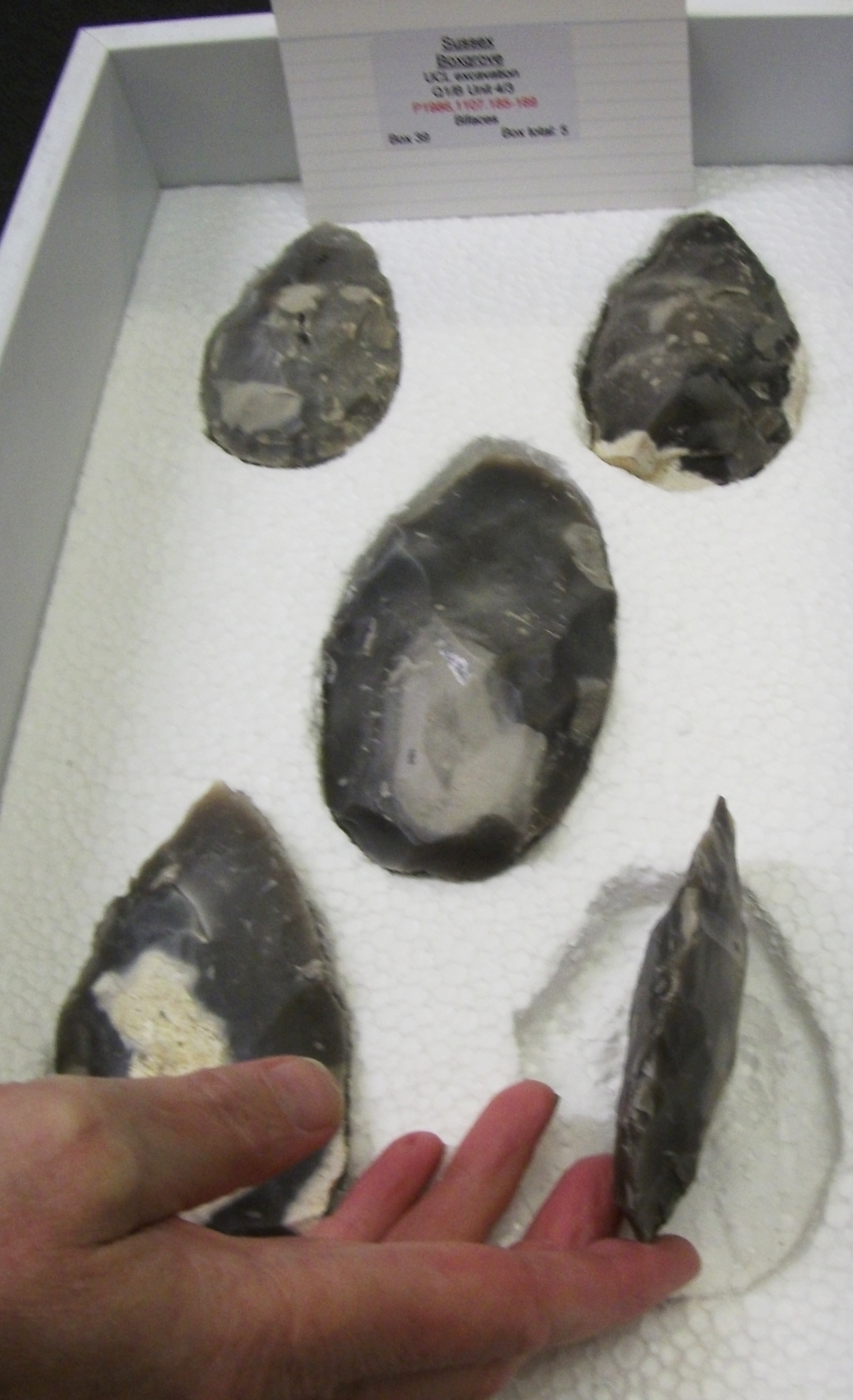 Hand axes from Boxgrove, BM Ice Age Art event, October 2011